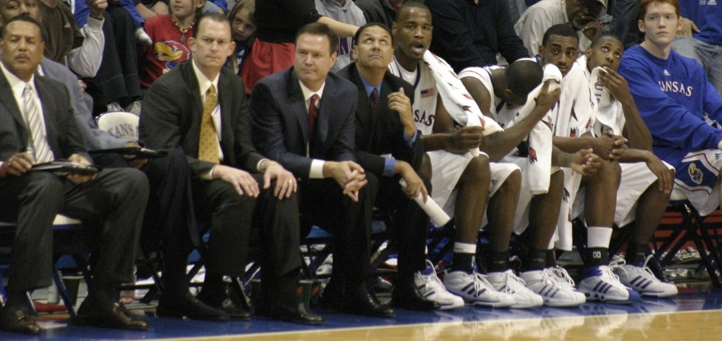 Kansas Jayhawks basketball coach Bill Self (third from left) with his staff and players on the bench in the game against Washburn on November 15, 2007.